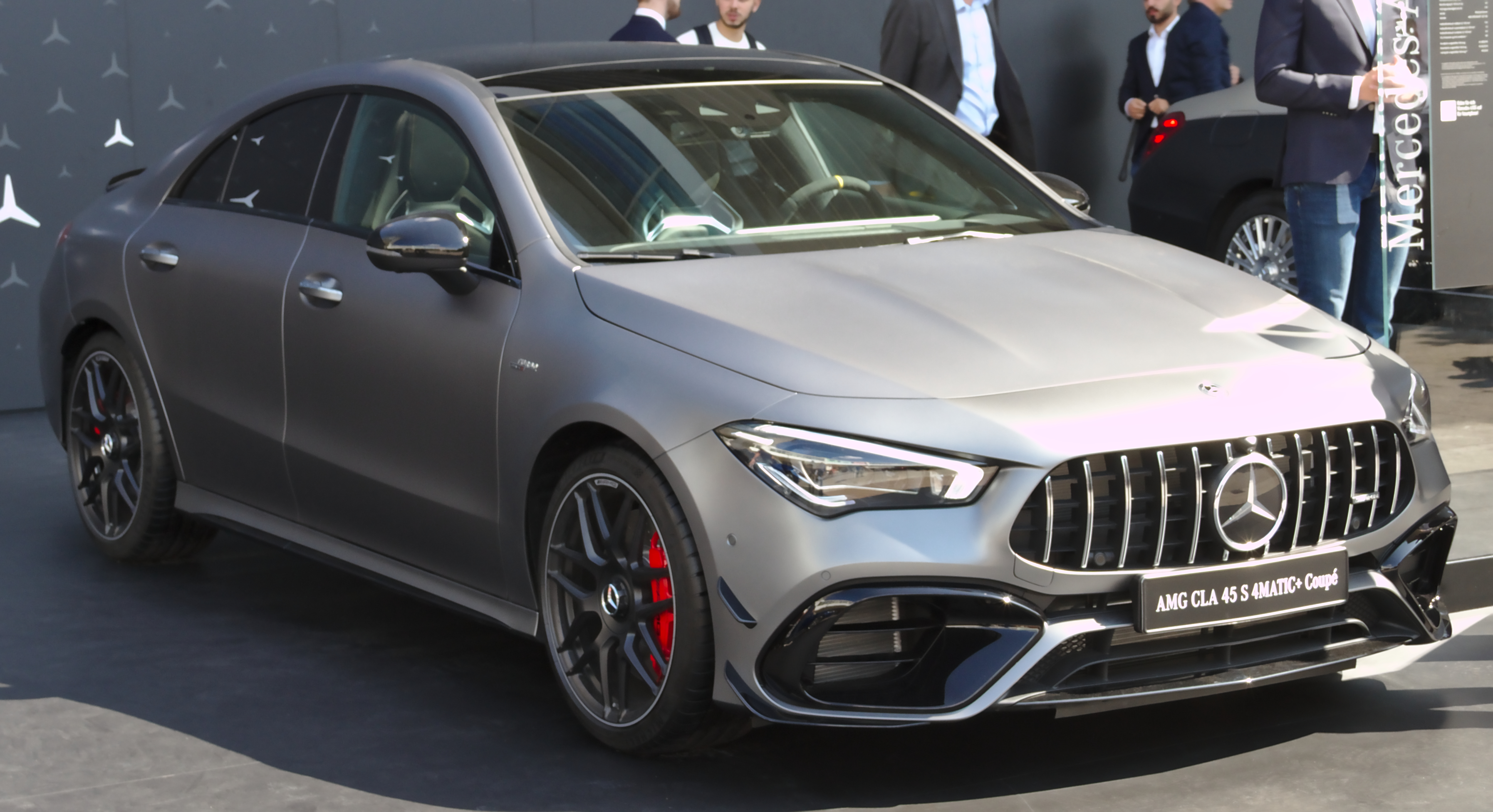 Mercedes-AMG_CLA_45_S_4MATIC+_(C118) at IAA 2019